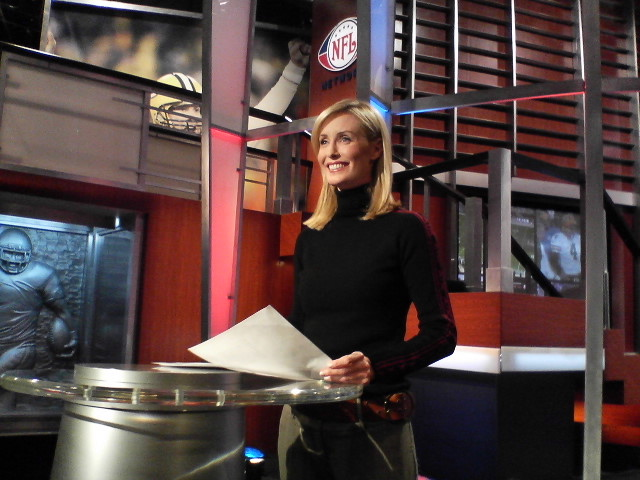 Mary Strong